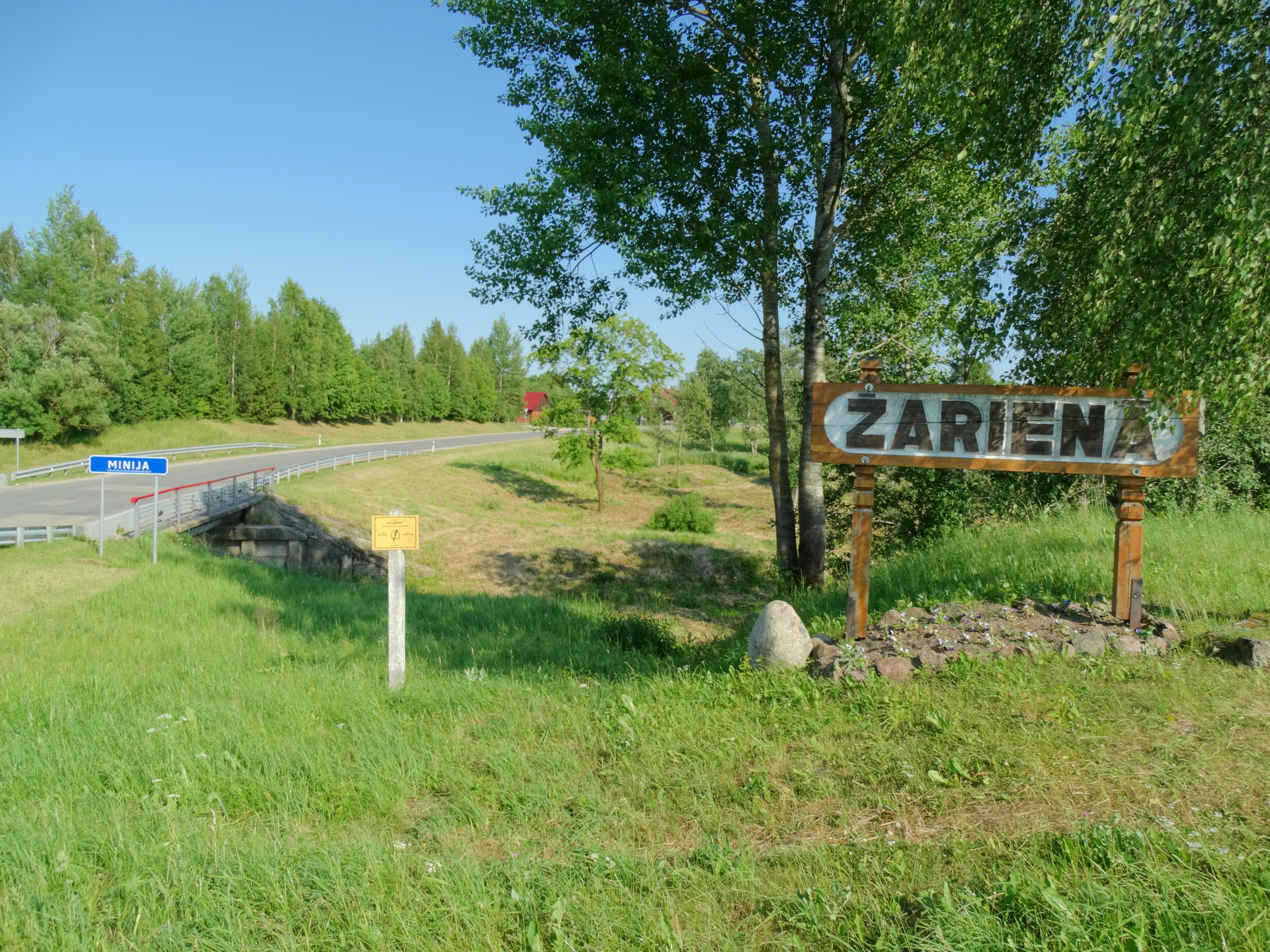 Žarėnai, Telšiai District, Lithuania